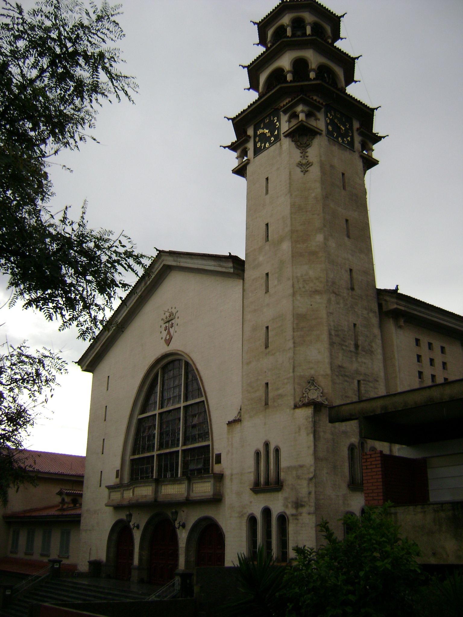 Igreja no bairro do Carmo